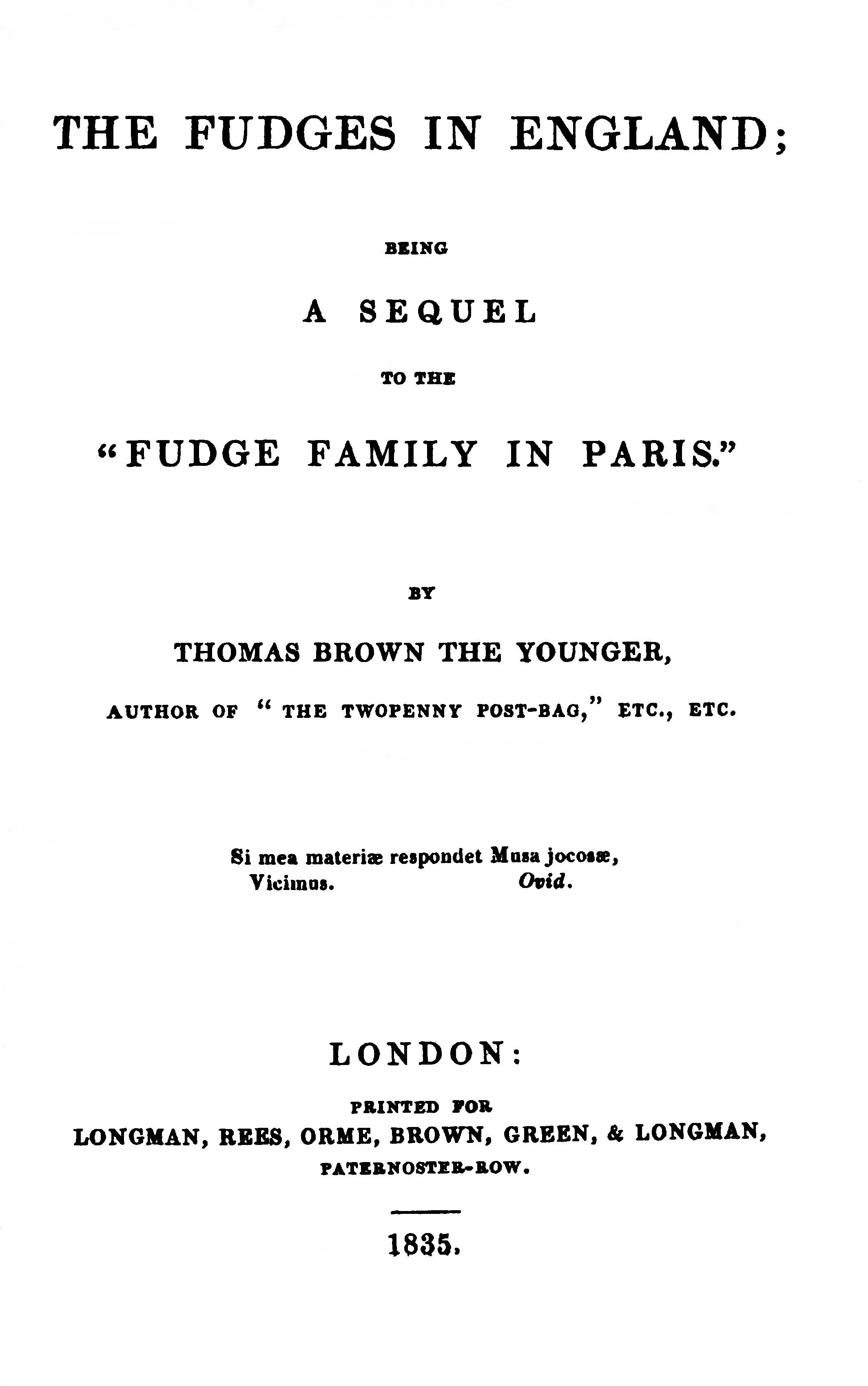 The Fudge Family in England 1st ed title pg